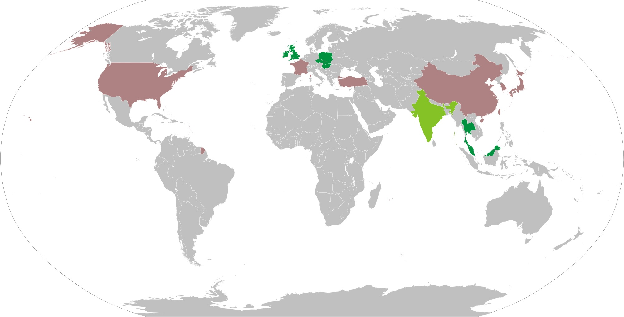 Spreading of TESCO branches worldwide large Supermarket business Franchise agreement with Trent (India) former activities no branches